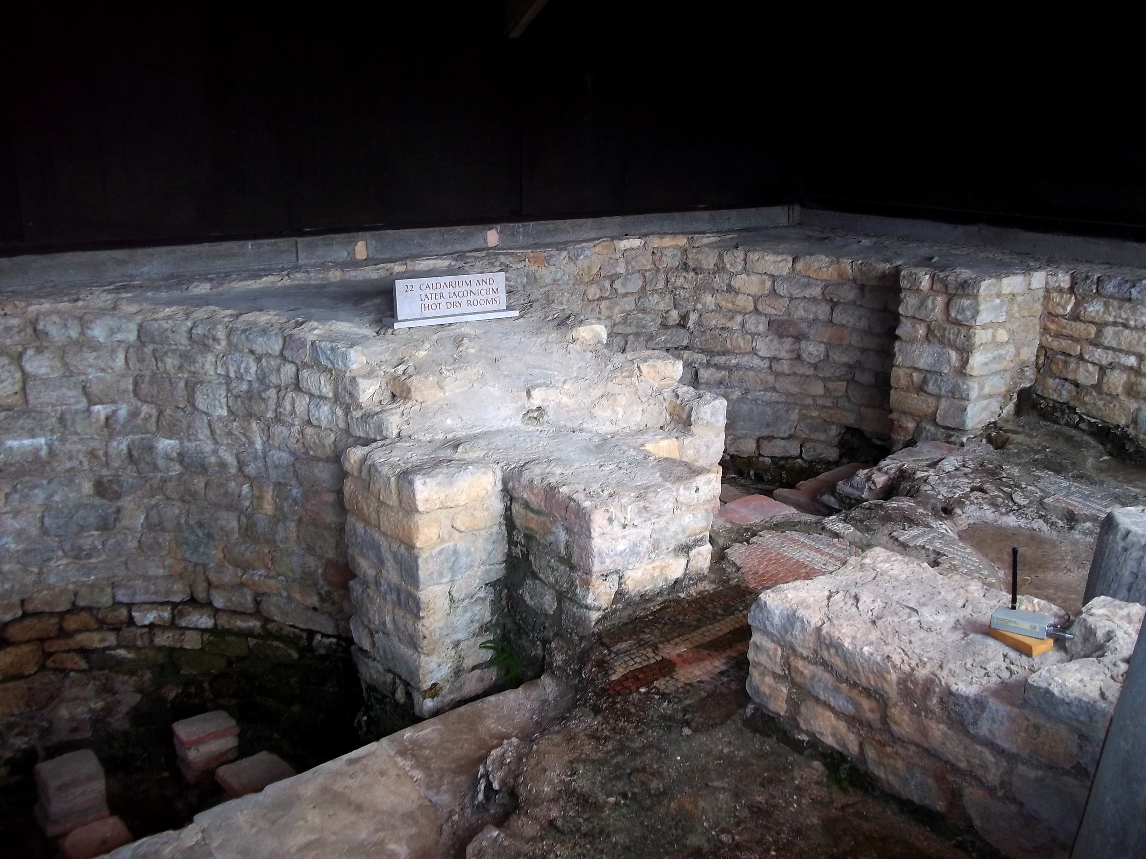 Chedworth Roman Villa -- North bath house